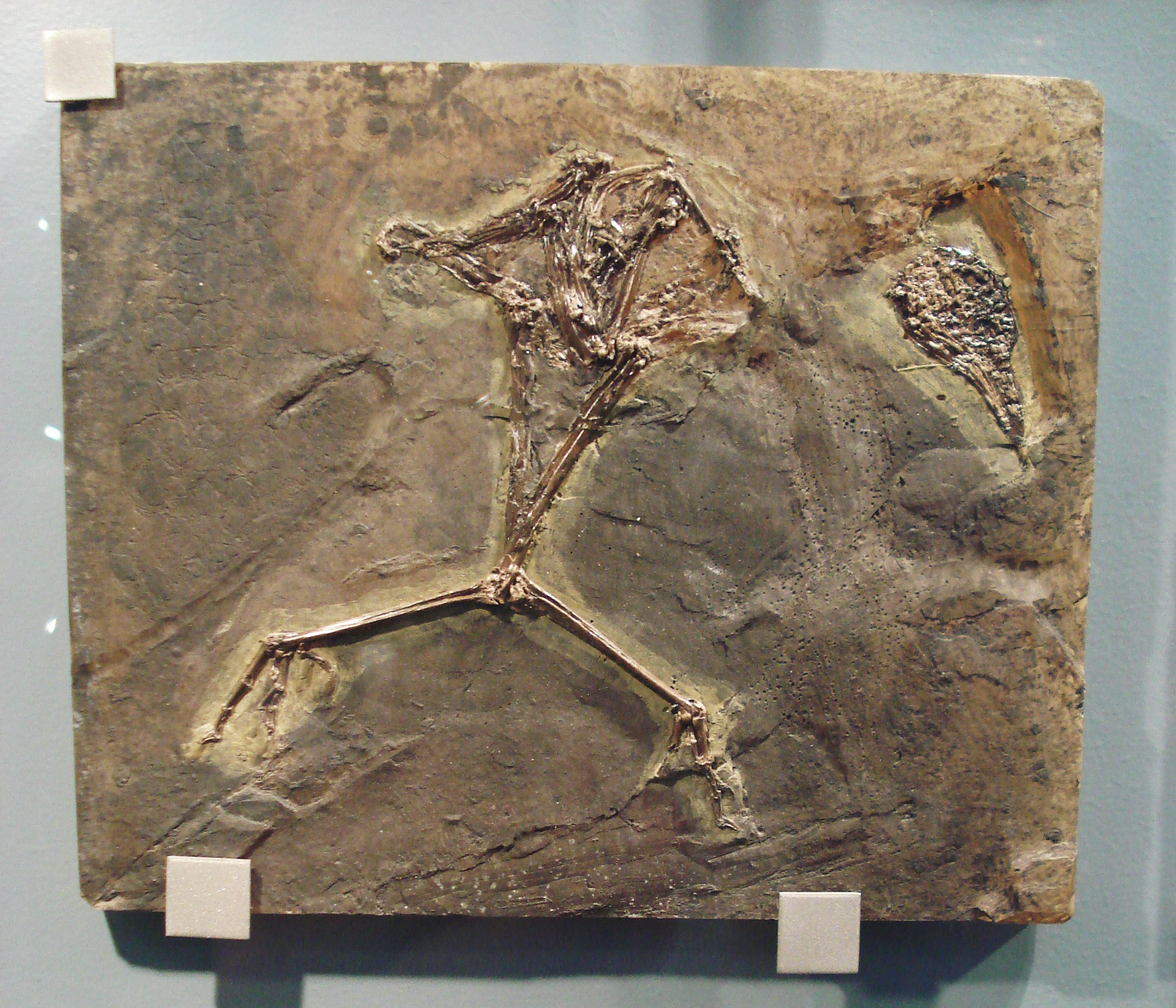 fossil of messelornis